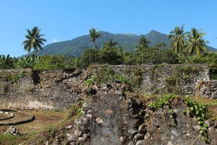 A section of the ruins of Kastella on Ternate in 2012